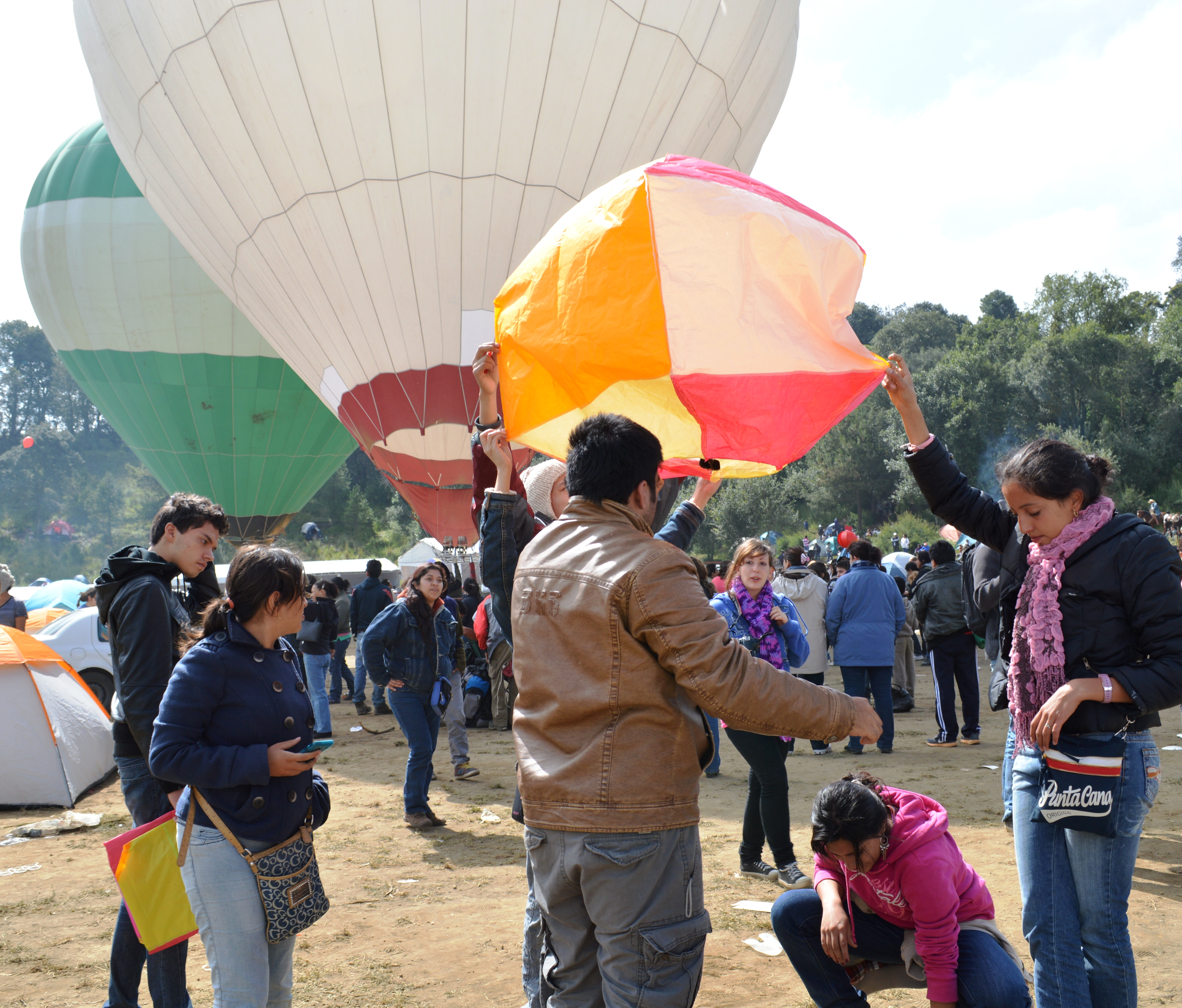 Scene at the Globos de Cantolla event in Milpa Alta, Mexico City